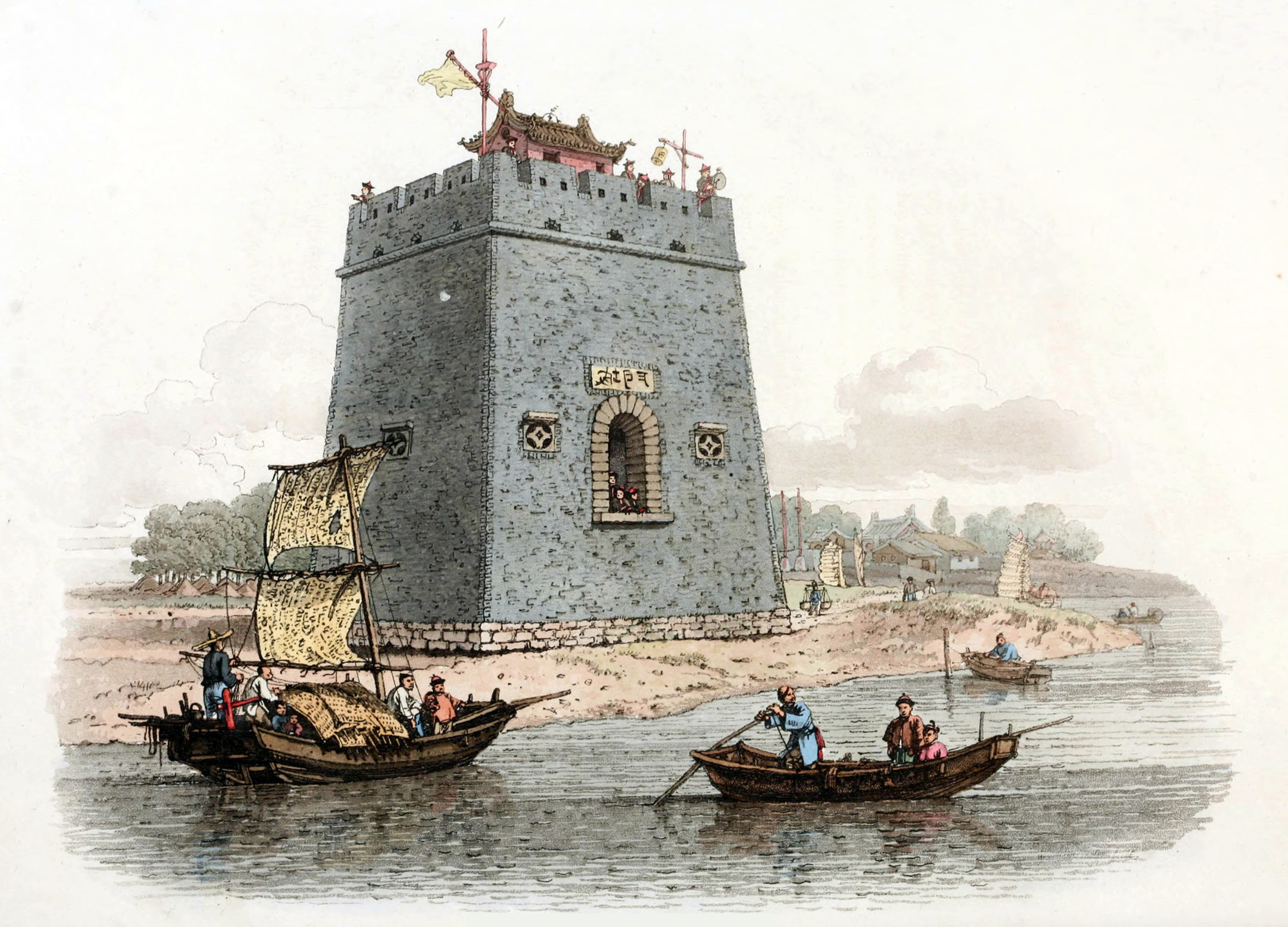 Drawing by William Alexander, draughtsman of the Macartney Embassy to China in 1793. A fort near Tianjin situated on a point at the confluence of three rivers, the Pei-ho, the Yun-leang, and the When-ho. The city of Tianjin was carefully guarded since it was the chief harbor for shipping, and principal depot for merchandise in China. This fortification was thirty-five feet in height, and built with bricks, except the foundation, which was of stone, and has been partly undermined; the surrounding country being very low and marshy. A guard of soldiers was constantly stationed there, and, in cases of turmoil, the sentinels gave the alarm to the adjacent military posts, in the daytime by hoisting a signal, and at night by the explosion of fireworks; on which the neighboring garrisons would arrive to the spot. On the upper landing there is a building to shelter sentinels on duty; one of them is beating a gong, to announce to the garrison the approach of a viceroy or mandarin of rank ; on this notice, they immediately form in a rank, and stand under arms to salute him. Within the parapet a lantern is suspended, and in the opposite angle the imperial standard is elevated; the color of the tablet, with the inscription on it, likewise shows it to be a royal edifice. In Johan Nieuhoff's account of the Dutch Embassy, which was sent to Peking in the year of 1650, there is a print either of this tower, or one similar to it, which stood on the same site. The hillocks of earth under a clump of trees, seen in the distance, are burying-places. Image taken from The Costume of China, illustrated in forty-eight coloured engravings, published in London in 1805.